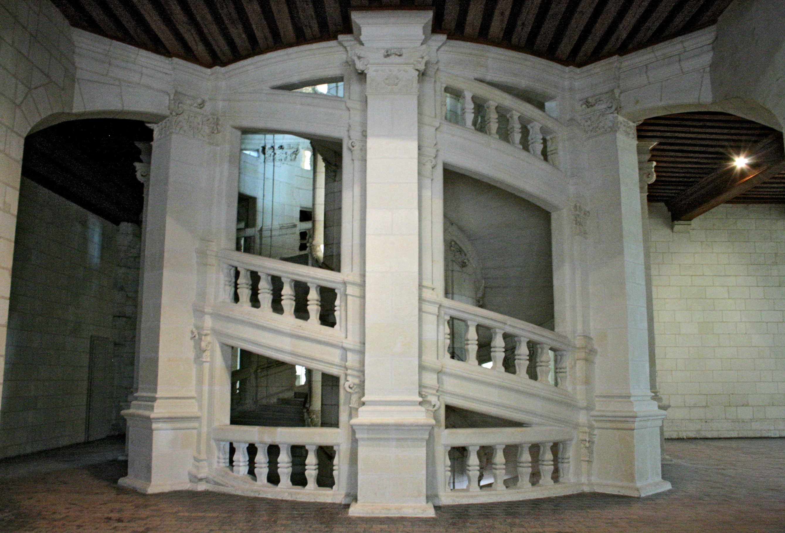 Central double helix staircase in the "dungeon" of the Castle of Chambord.